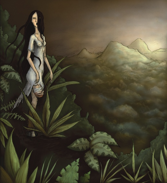 Horrible woman who likes to suck blood to men is very patasola similar to the difference that it cut into their tasajos victims.